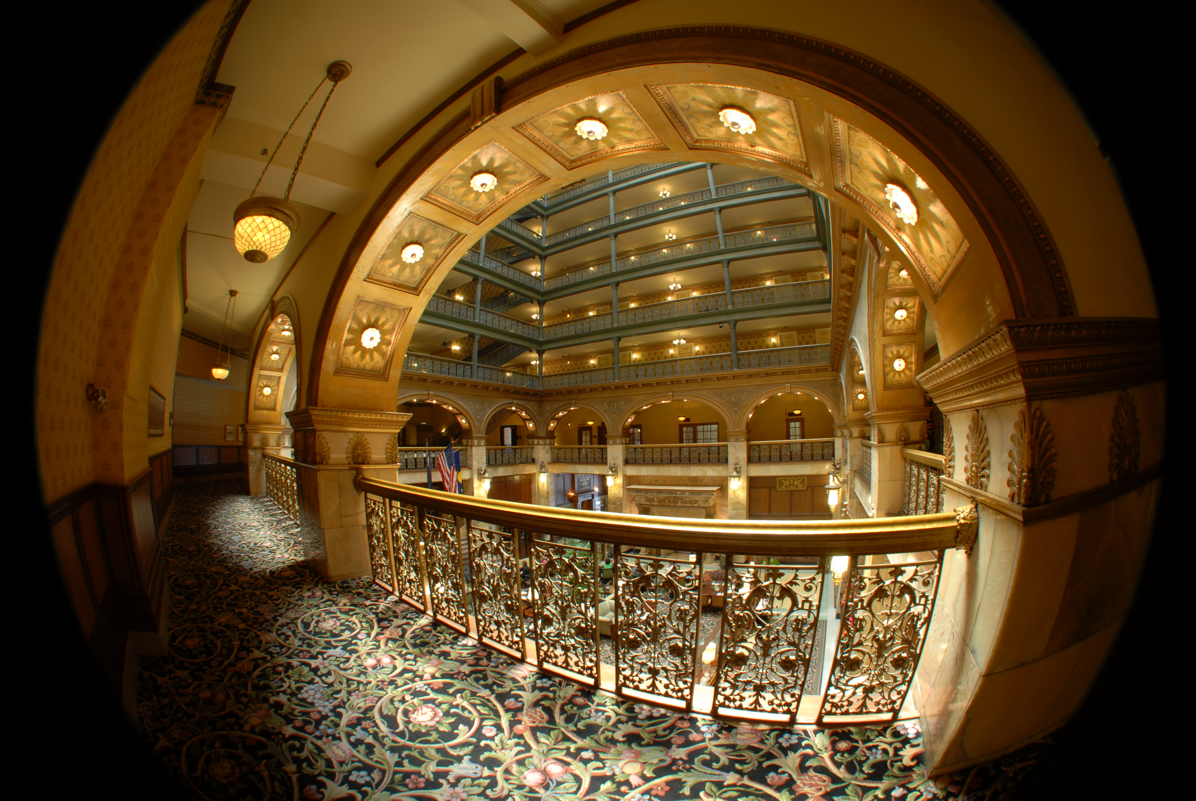 Brown Palace Hotel, view from the second floor hall towards center atrium. (taken May. 3, 2007). Shot with a Nikon D200 and Sigma 8mm lense. © 2007 Patrick Charles